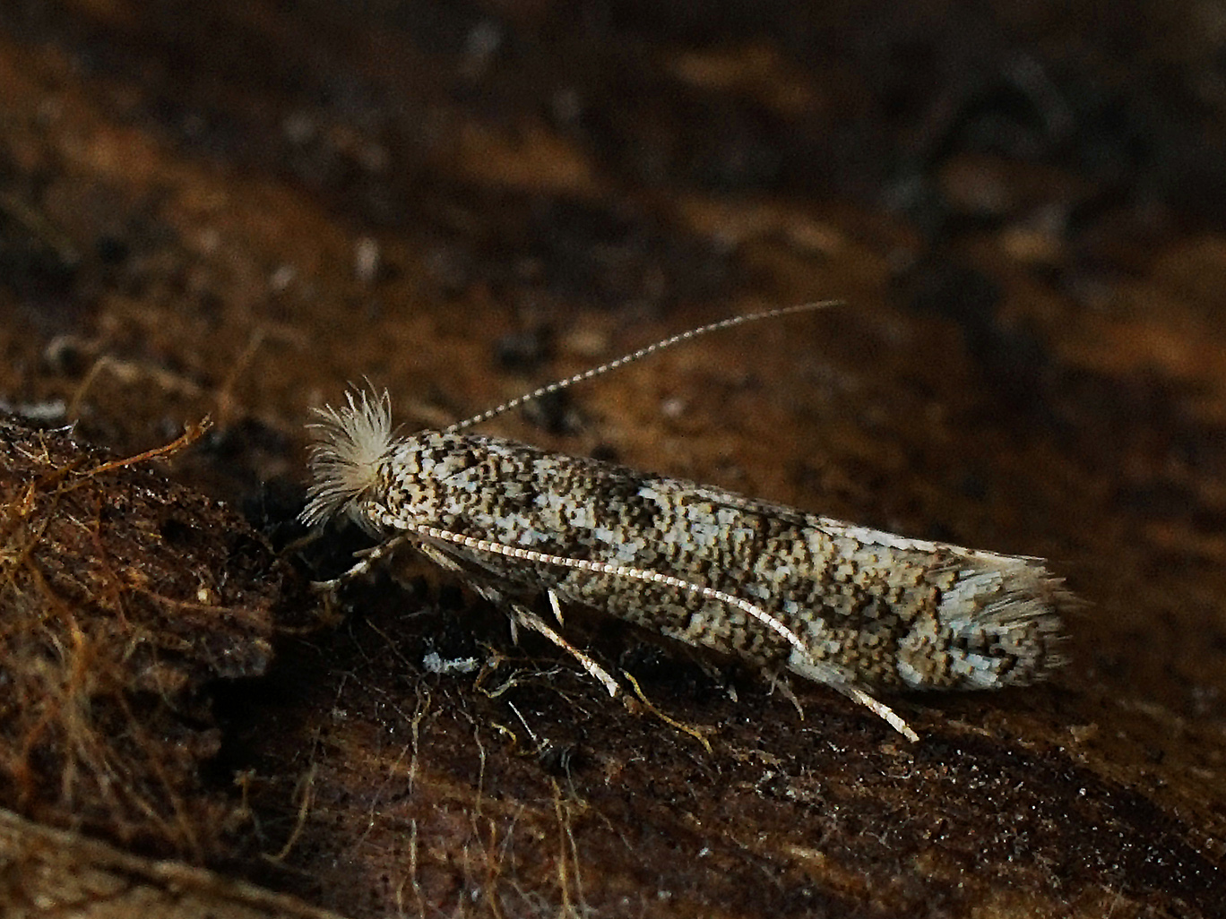 Exemplar found: Russia, Moscow, Mozhaysky District, Bagritskogo str., 17.04.2018, by light Москва, р-н Можайский, ул. Багрицкого, 17.04.2018, на свет